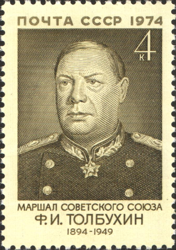 USSR stamp